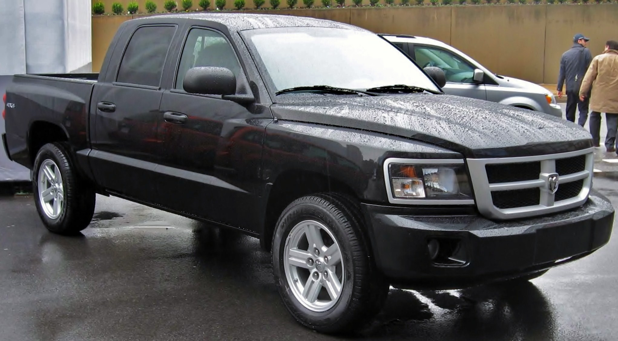 2008 Dodge Dakota photographed in New York City, USA.